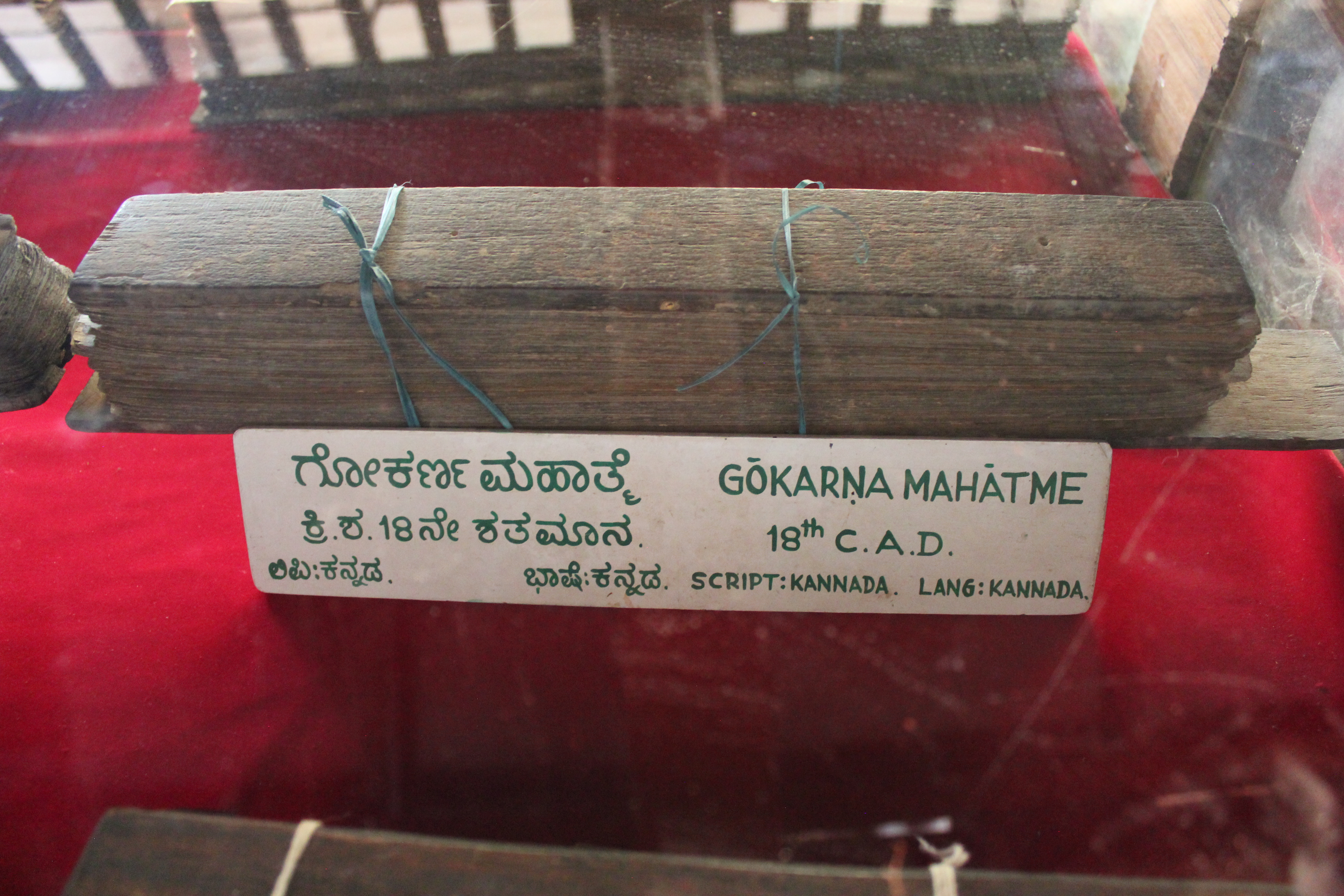 This photograph was taken at the Shivappa Nayaka palace and museum in Shivamogga city (formerly Shimoga) in Karnataka state, India